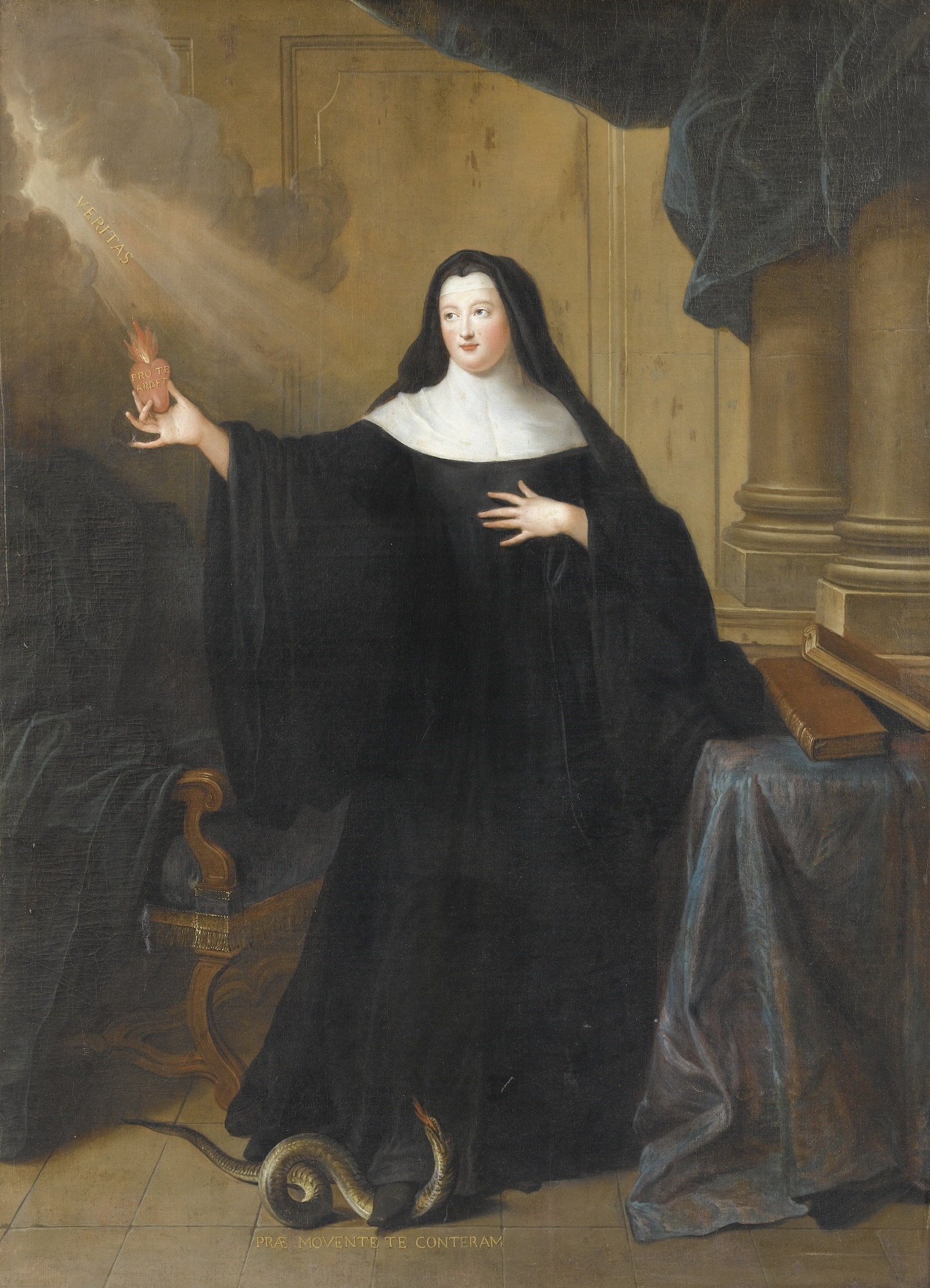 Pierre Gobert portrait of Louise Adélaïde d'Orléans (1698–1743) Abbess of Chelles